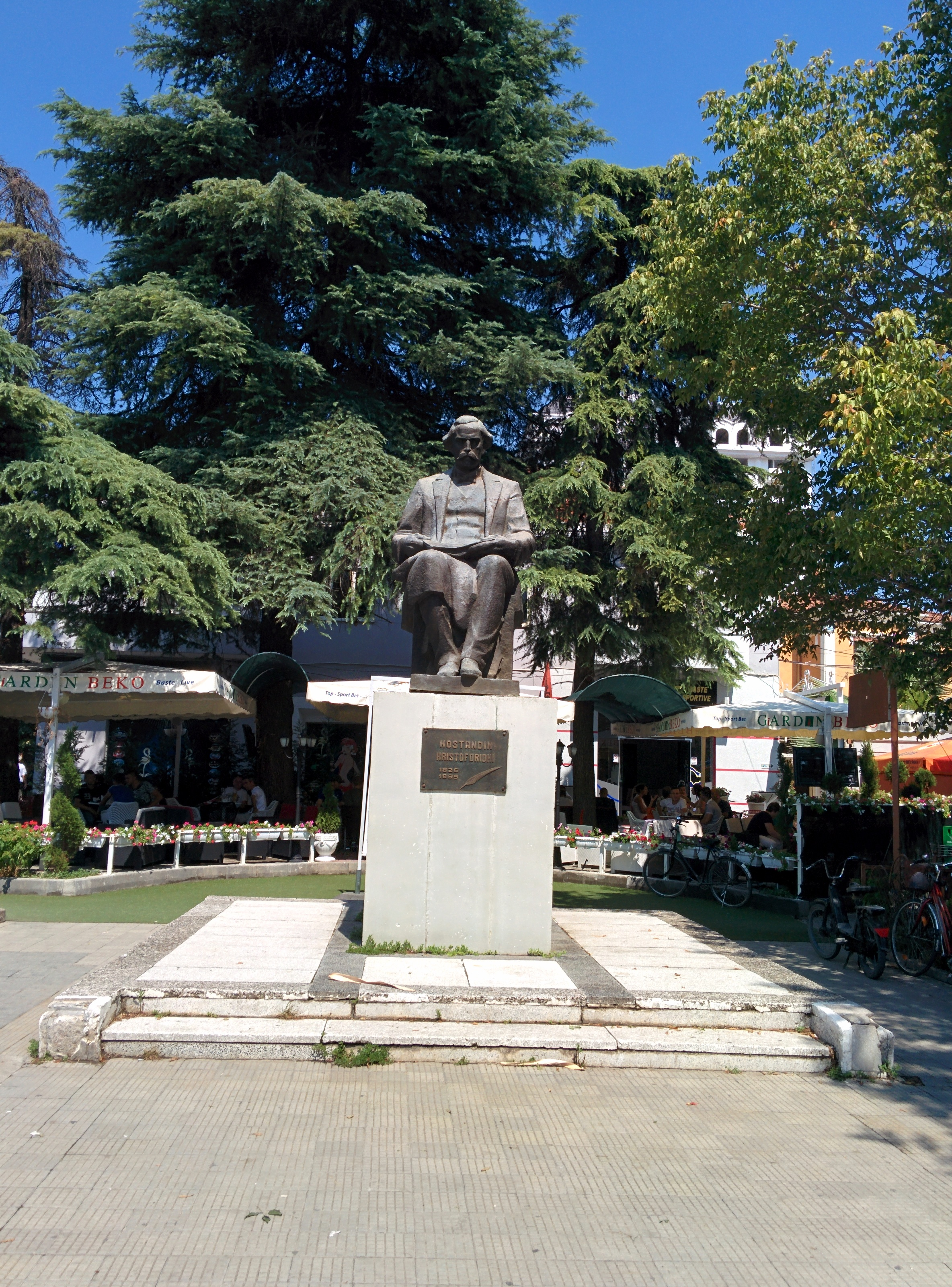 Located in the middle of the city the monument of Konstandin Kristoforidhi is one of the most recognizable points of interest of Elbasan.